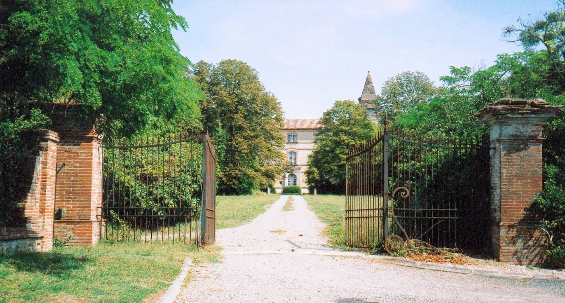 Portal of Bonrepos castle, Bonrepos-Riquet village, Haute-Garonne, France